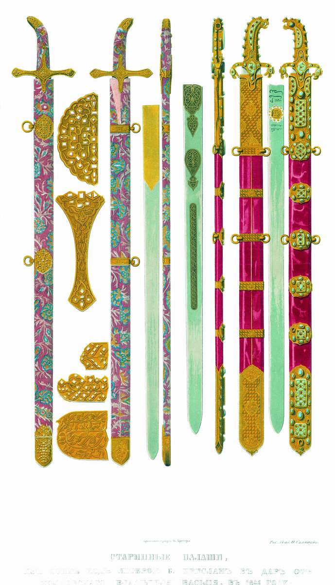 Palashes - Russian and Moldavian (17th cent)